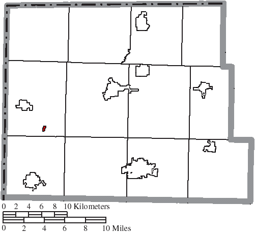 Map of the municipal and township boundaries of Williams County, Ohio, United States, as of the 2000 census, with the location of the village of Blakeslee highlighted. Township borders are shown only in unincorporated areas in order to differentiate incorporated and unincorporated areas more clearly.